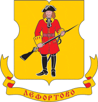 Lefortovo (rayon of Moscow), coat of arms